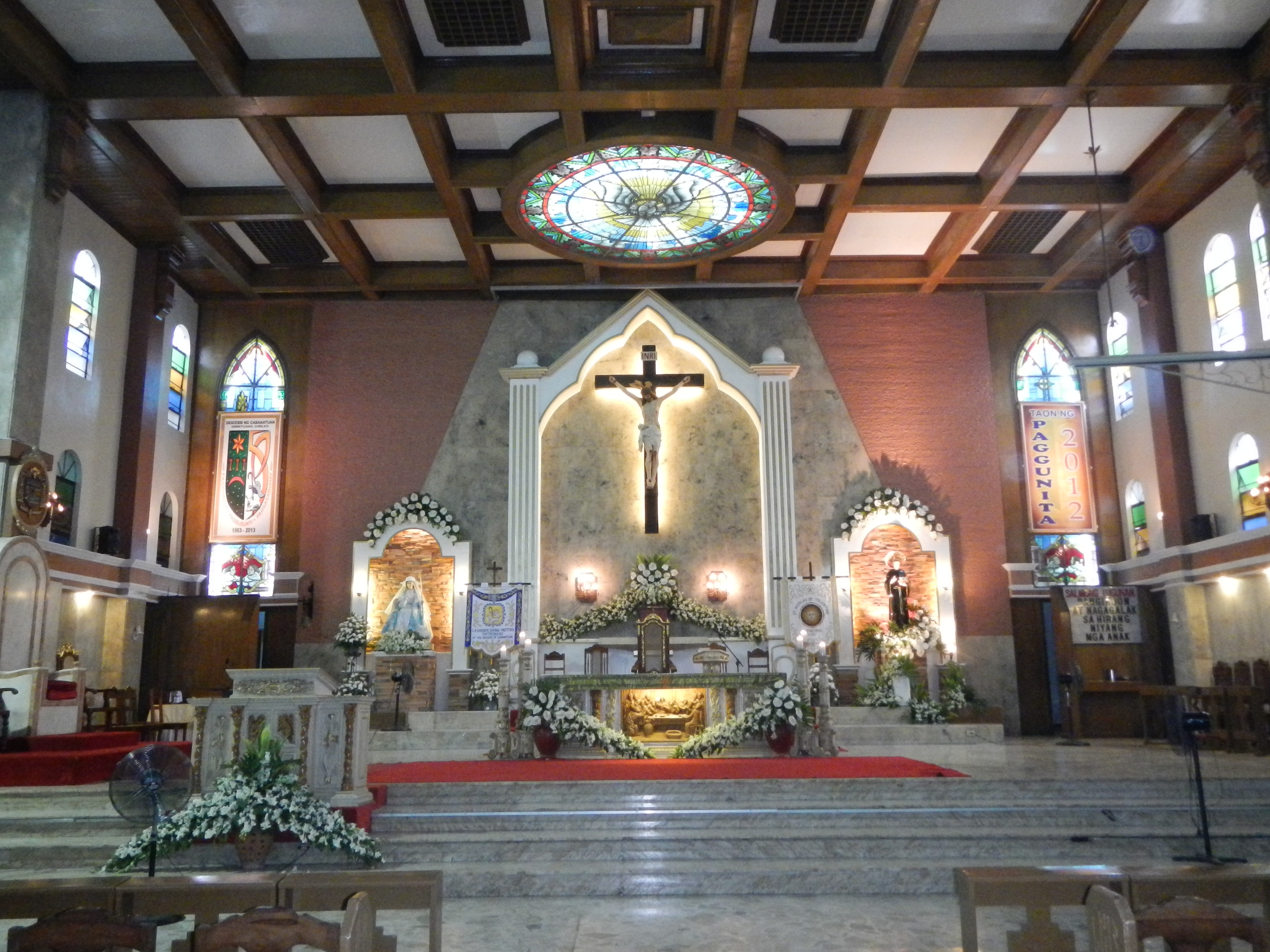 Altar Cabanatuan St. Nicholas of Tolentine Cathedral